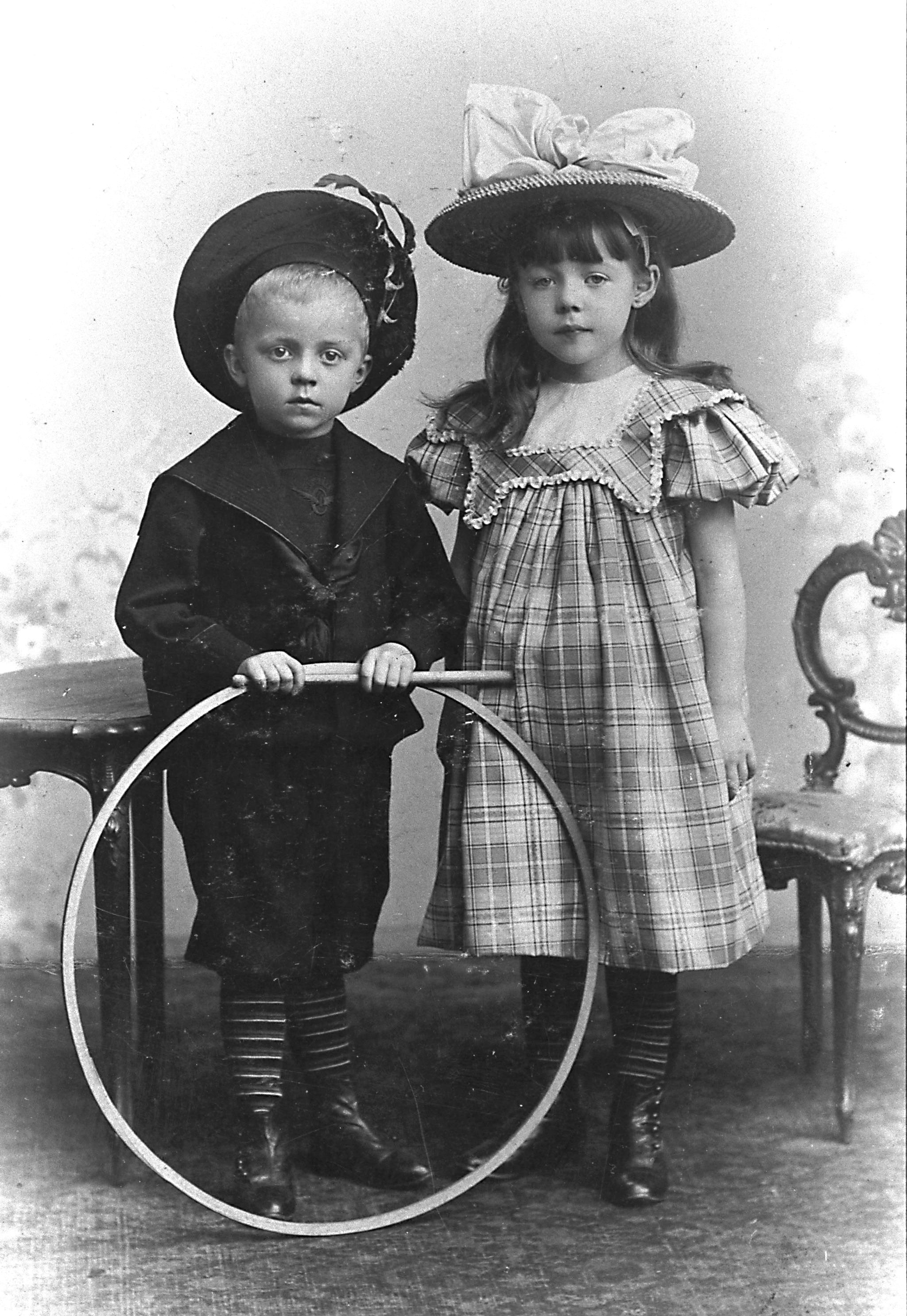 Professional photograph of a person/group from around the turn of the 19th/20th century: siblings